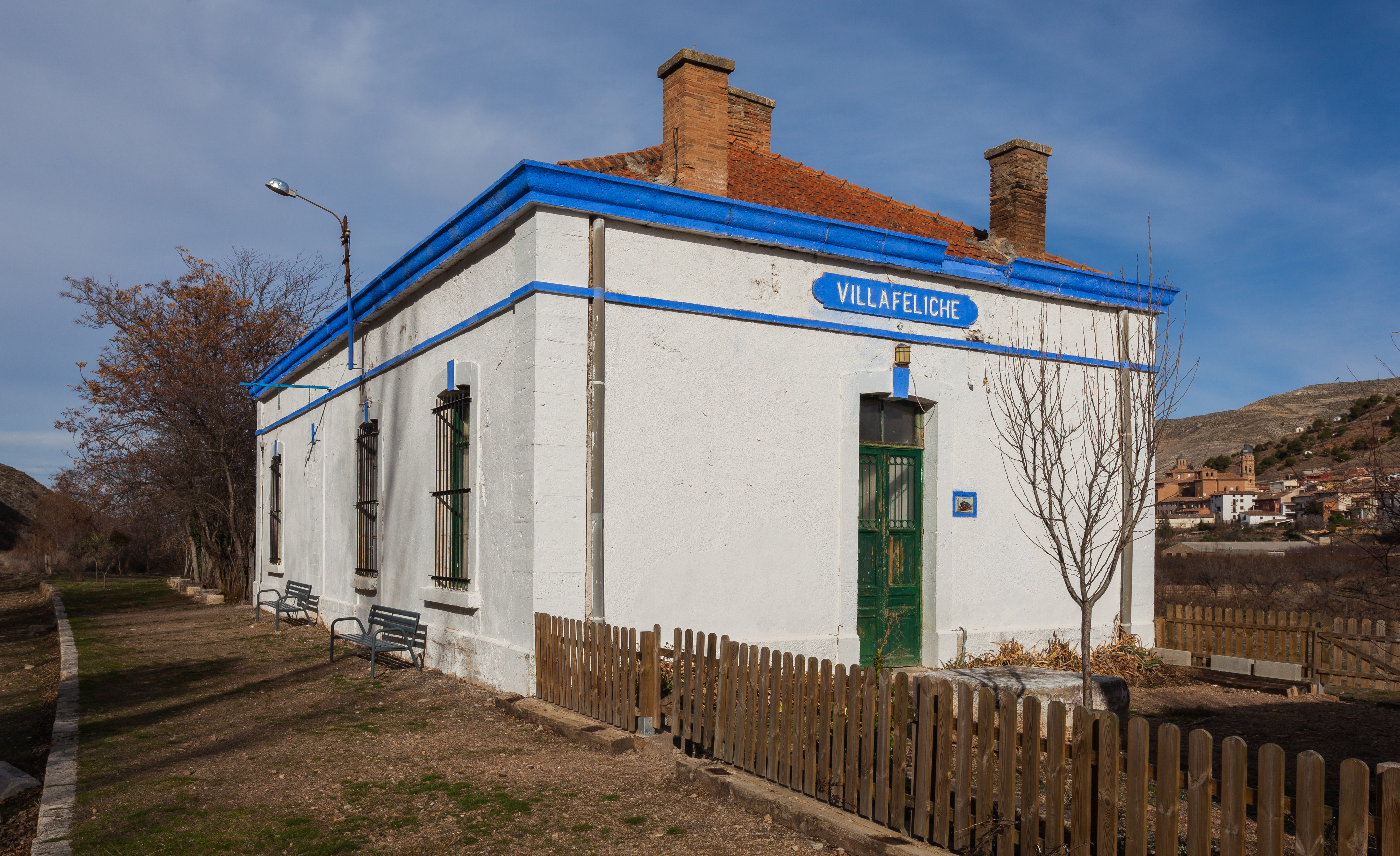 Old railway station, Villafeliche, Zaragoza, Spain